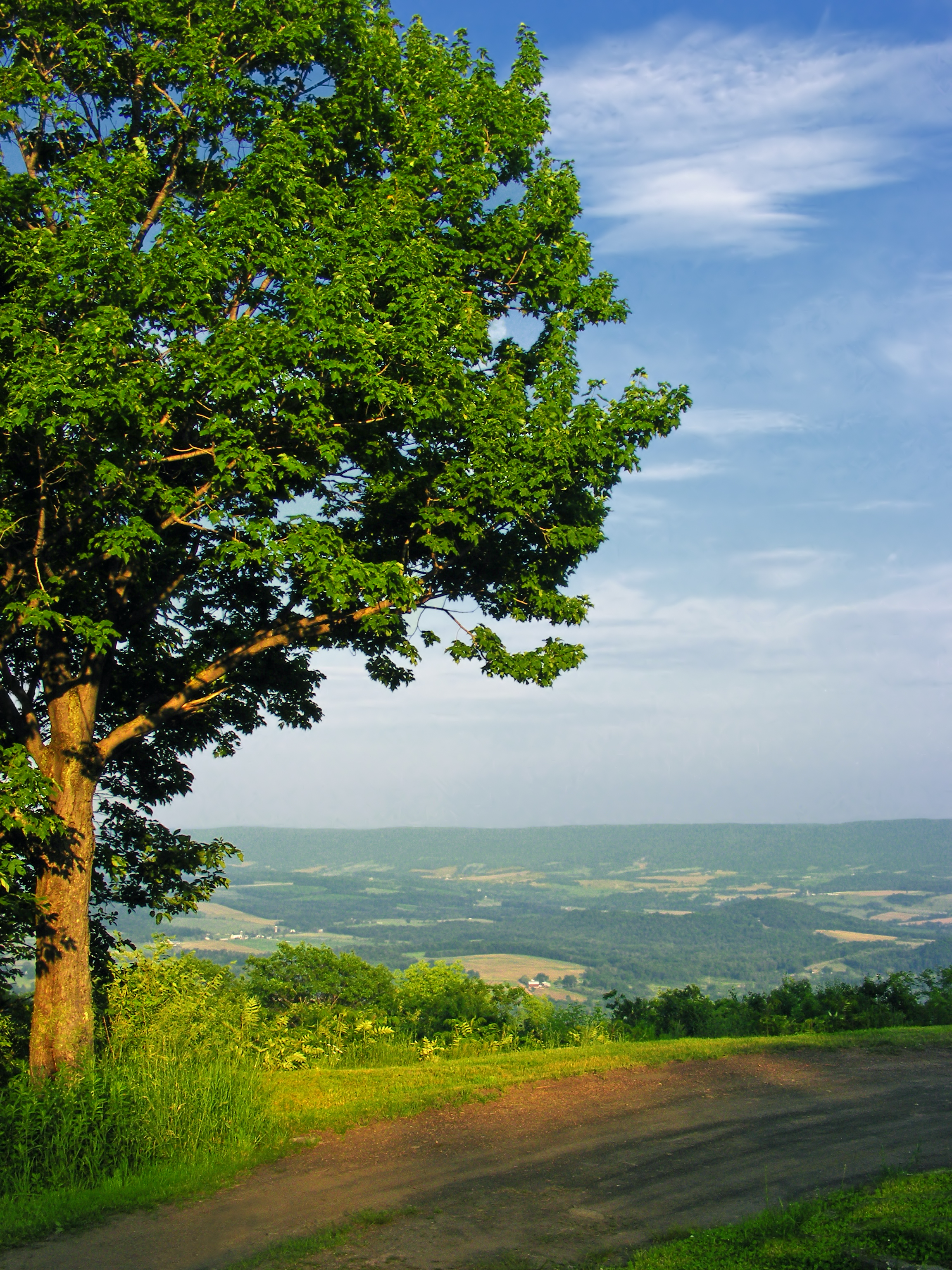 Late-day light, Lambs Lookout, Bradford County, within Tioga State Forest. Facing east to northeast, the vista stands about a thousand feet above a rural farming valley. Will need to return for a sunrise shoot.